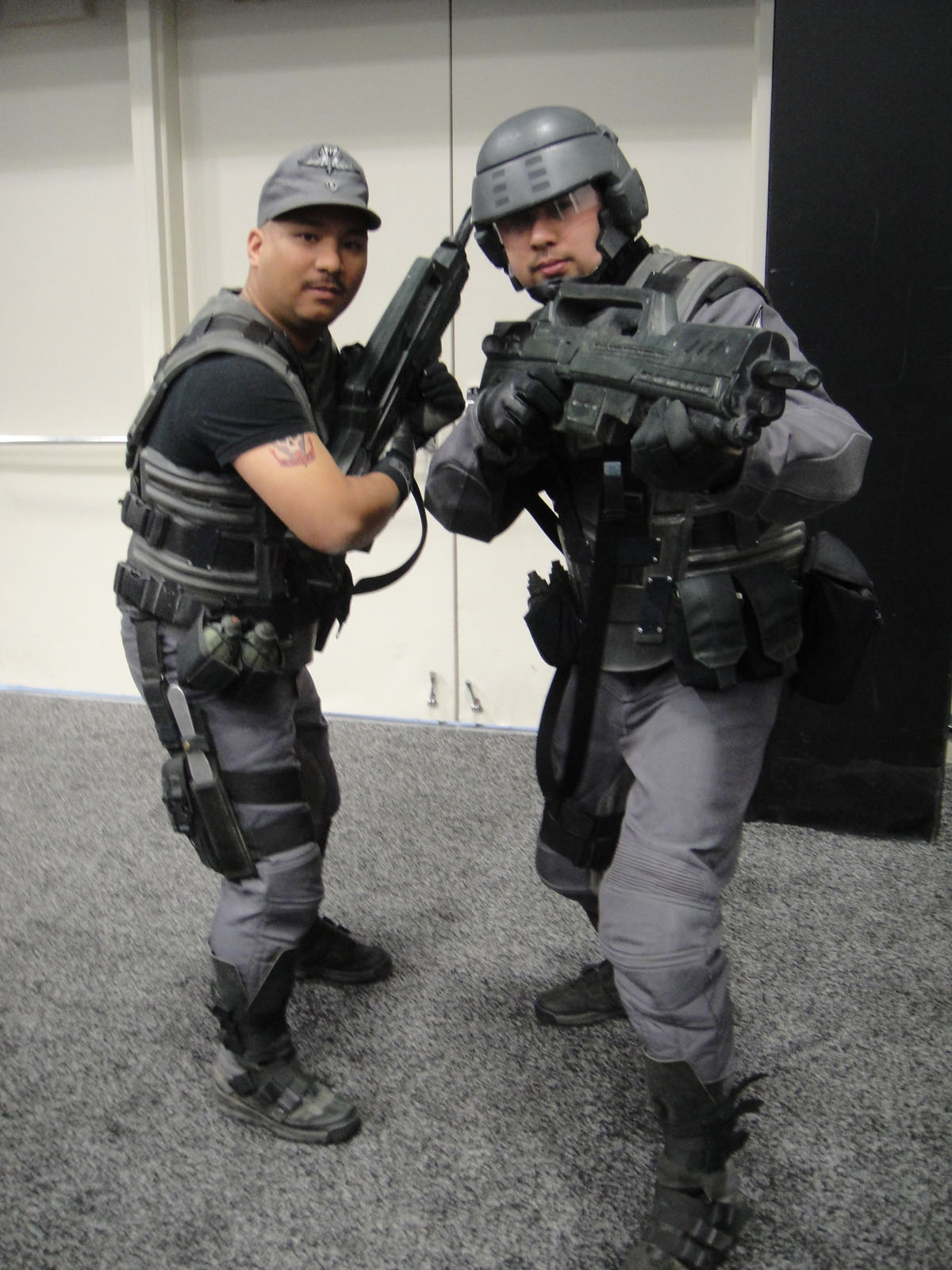 WonderCon 2011 - Starship Troopers